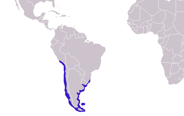 Distribution of the South American Fur Seal